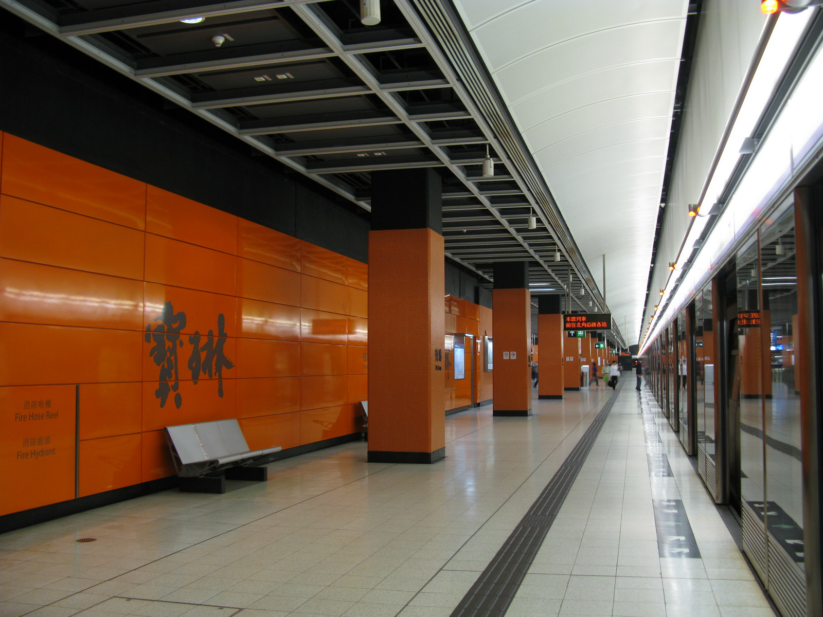 Tseung Kwan O Line Platform of Po Lam Station